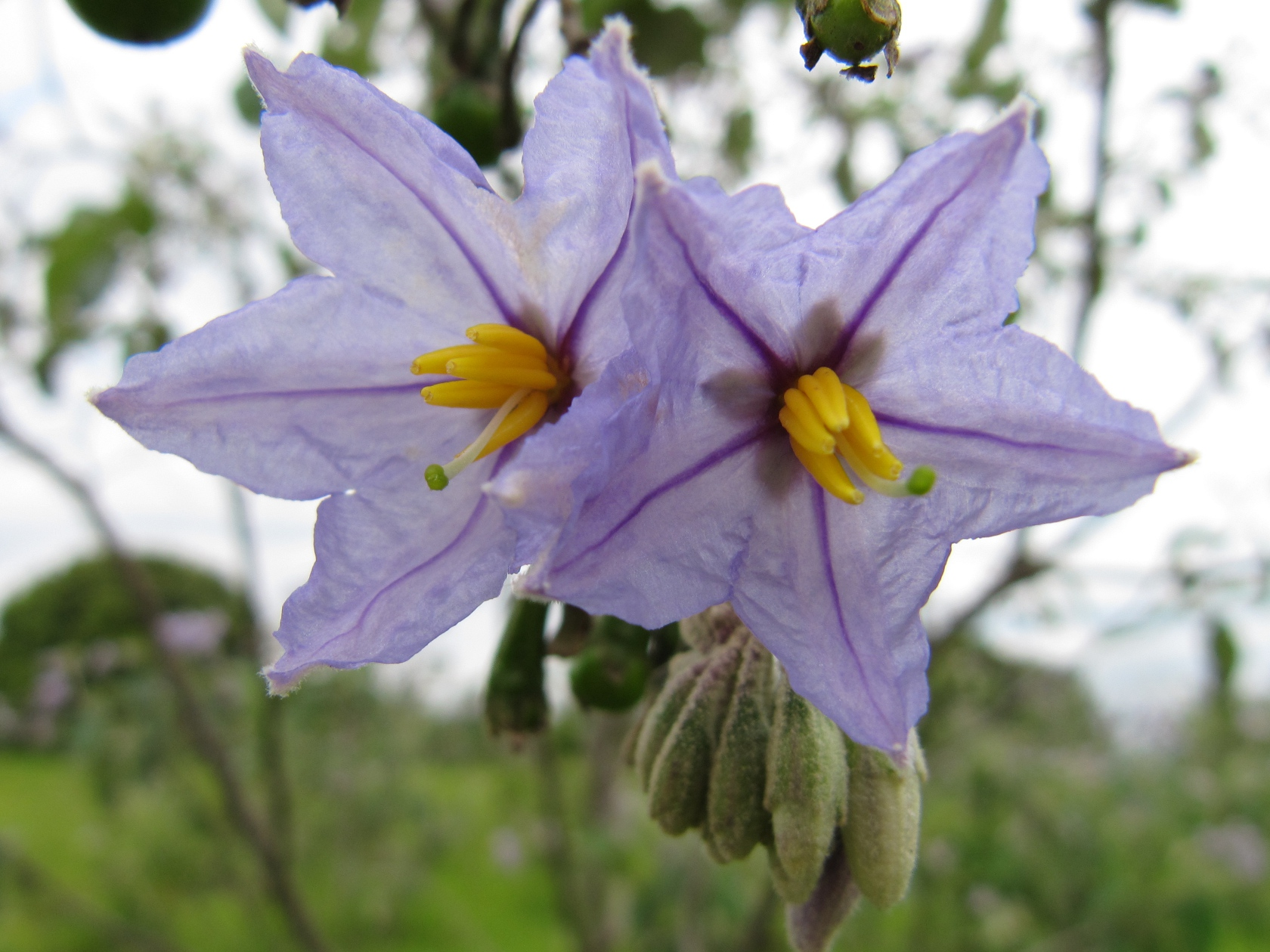 A couple of purple flowers of Solanum elaeagnifolium. Shot in Brazil.